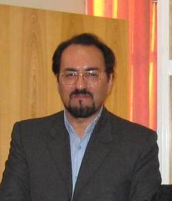 Persian Philosopher Mahmoud Khatami